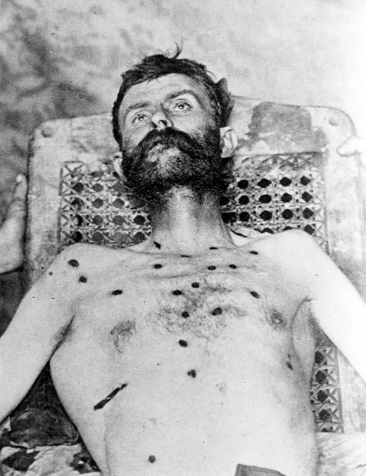 Bill Doolin's passing was as violent as the rest of his Wild Bunch. As with him, all their deaths were by gunshot. Photo was first published in 1896 and is in the public domain.